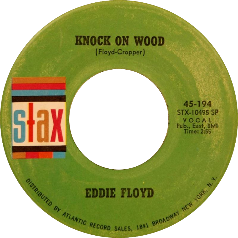 One of side-A label pressings of the US vinyl single "Knock on Wood" by Eddie Floyd (45-194)